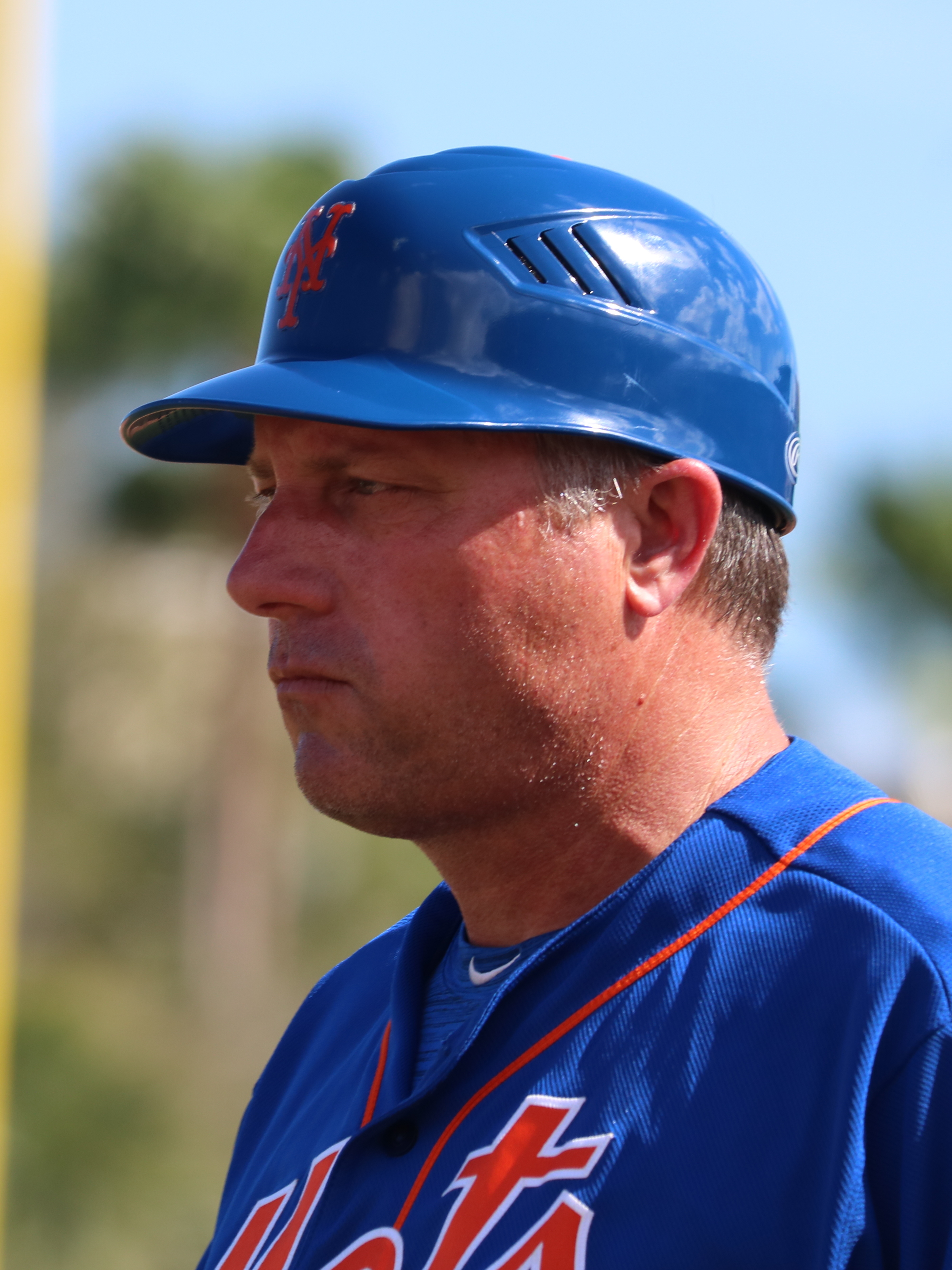 Gary DiSarcina on March 3, 2019